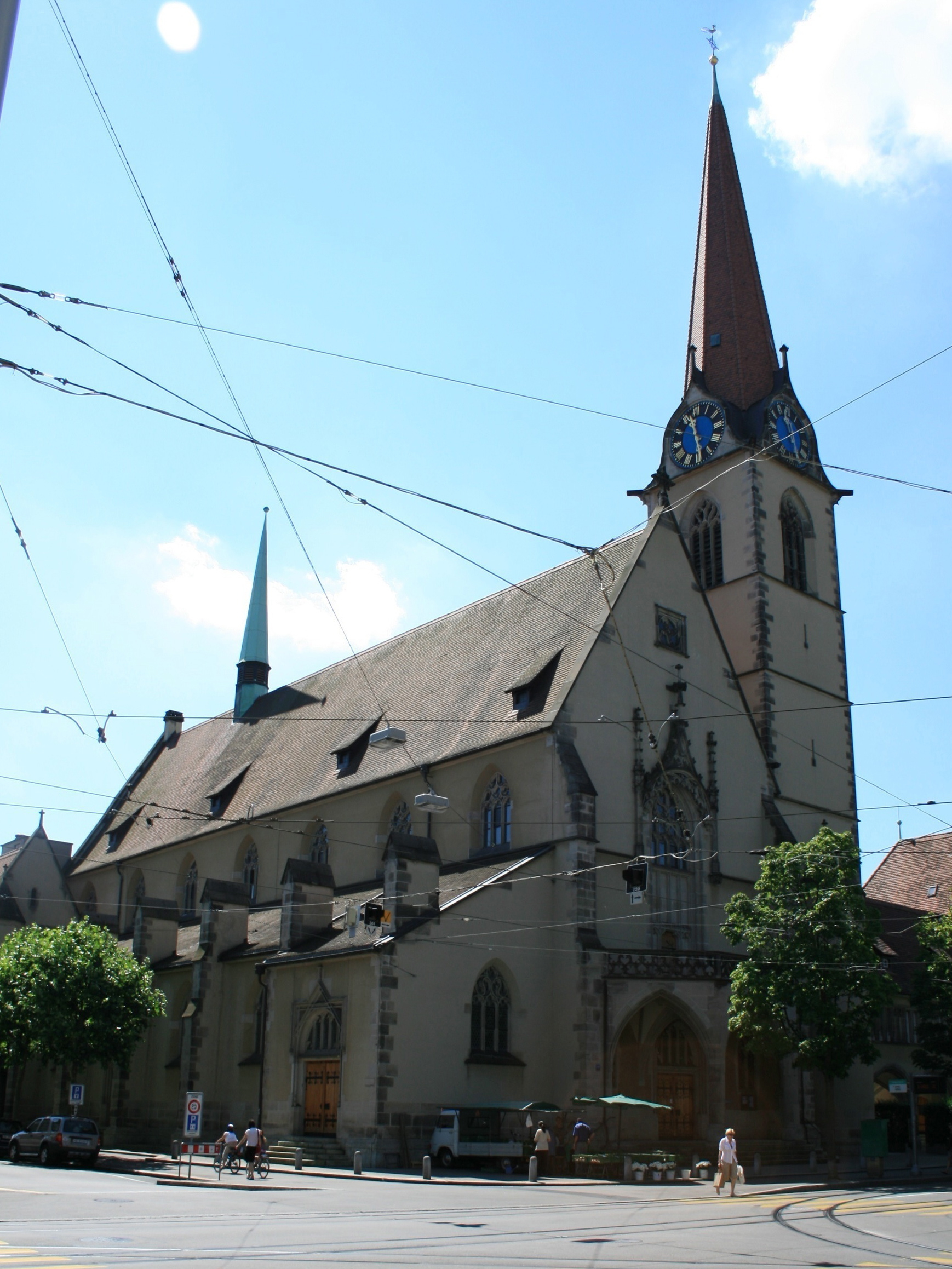 Church of the Holy Spirit in Basel, Switzerland.